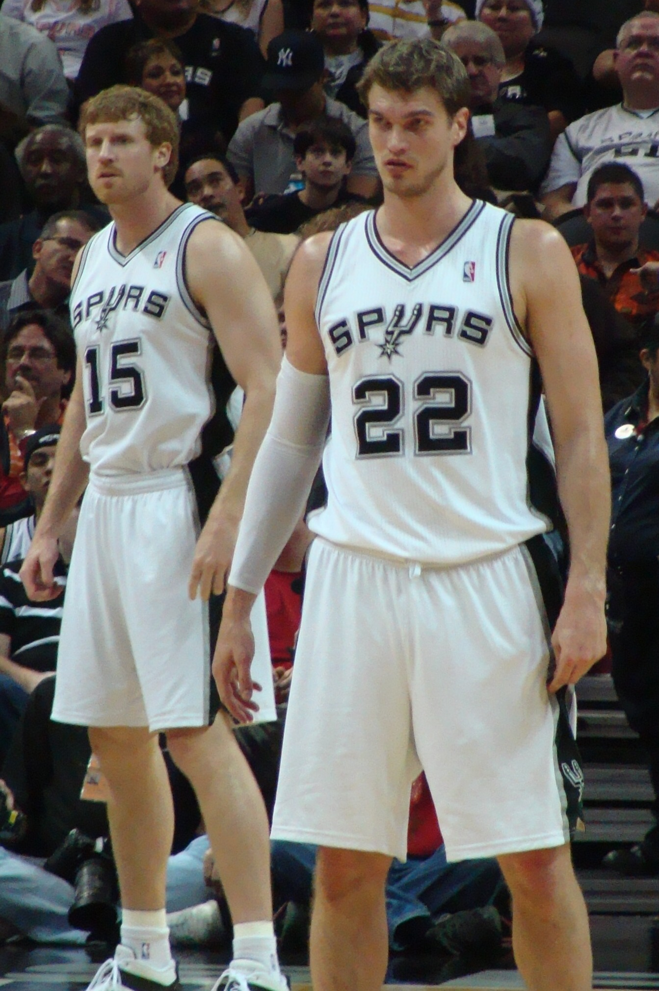 Tiago Splitter and Matt Bonner of the San Antonio Spurs, during the Spurs-Nuggets match on 12-22-2010 in San Antonio, TX.